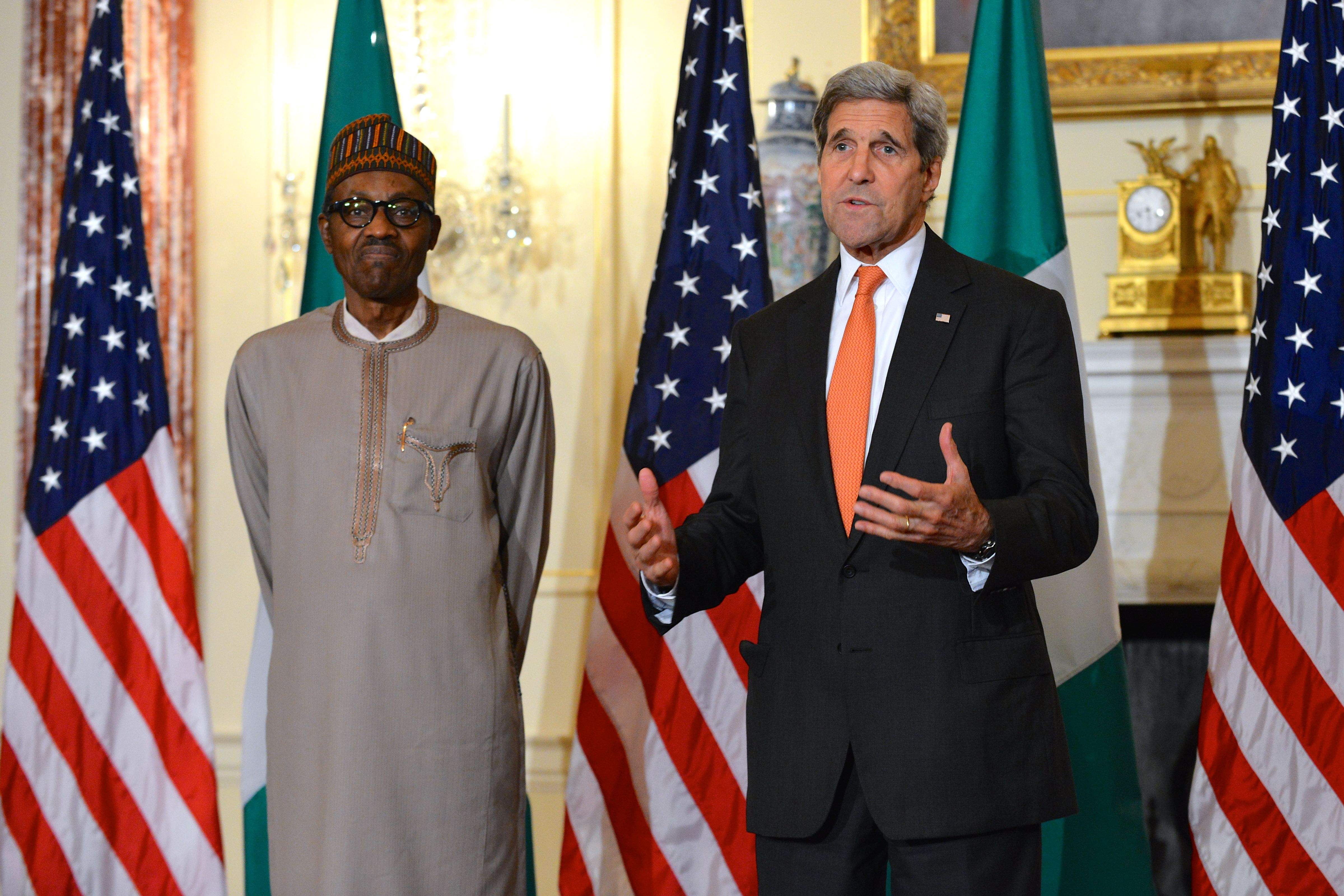 U.S. Secretary of State John Kerry and Nigerian President Muhammadu Buhari address reporters before their working lunch at the U.S. Department of State in Washington, D.C., on July 21, 2015.